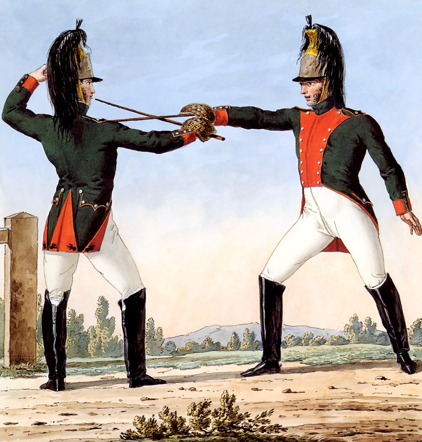 Part of a series chronicling the uniforms of Napoleon's Grande Armée.